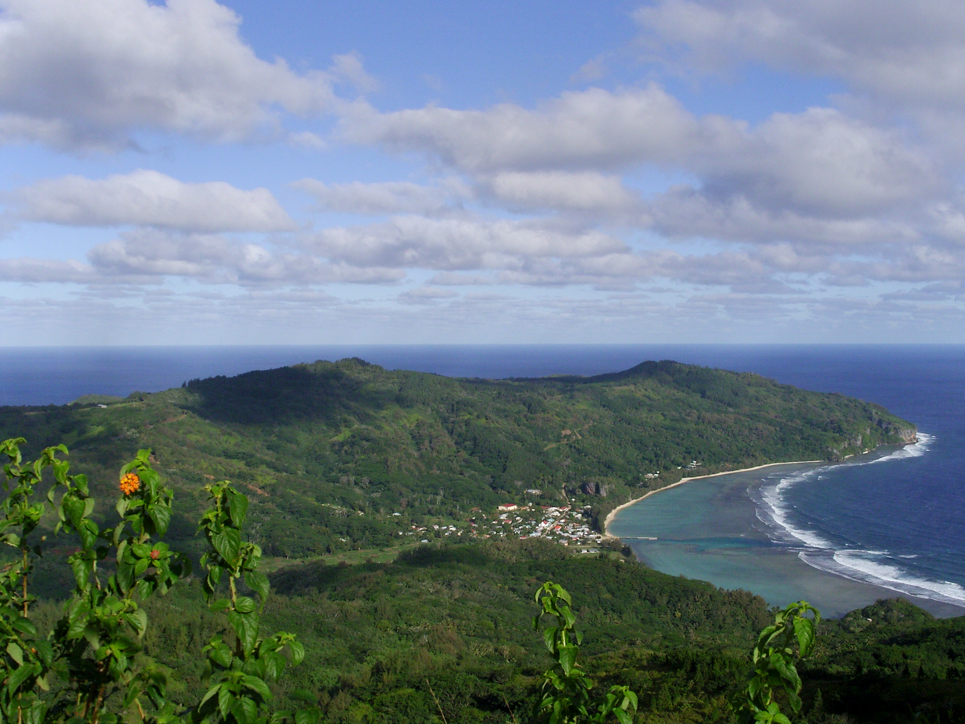 A view of Rurutu (Australs islands - French Polynesia) taken from the Mount Manureva. We can see Avera, one of the villages of Rurutu.